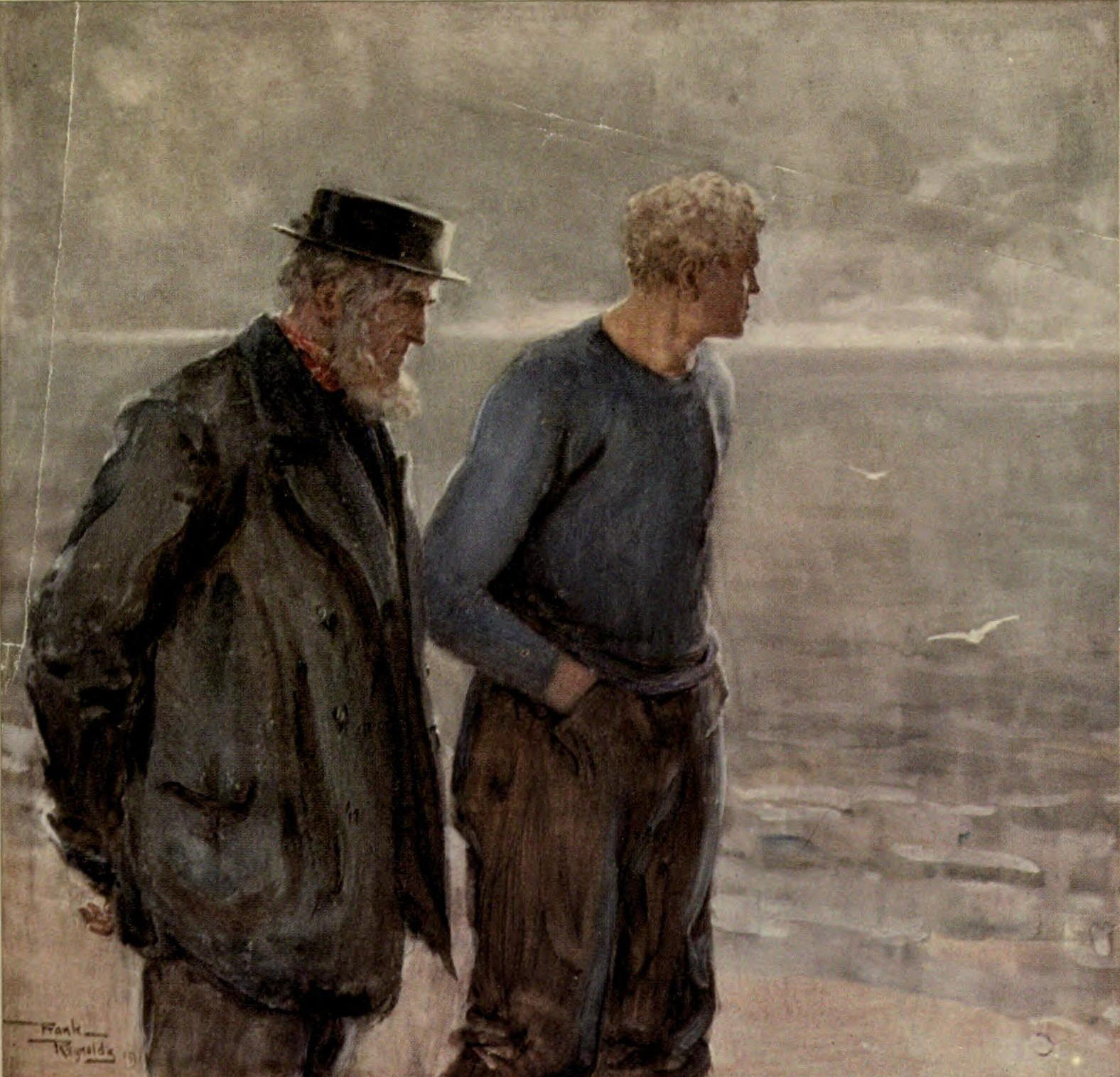 Mr. Peggotty and Ham, characters in Charles Dickens' David Copperfield.